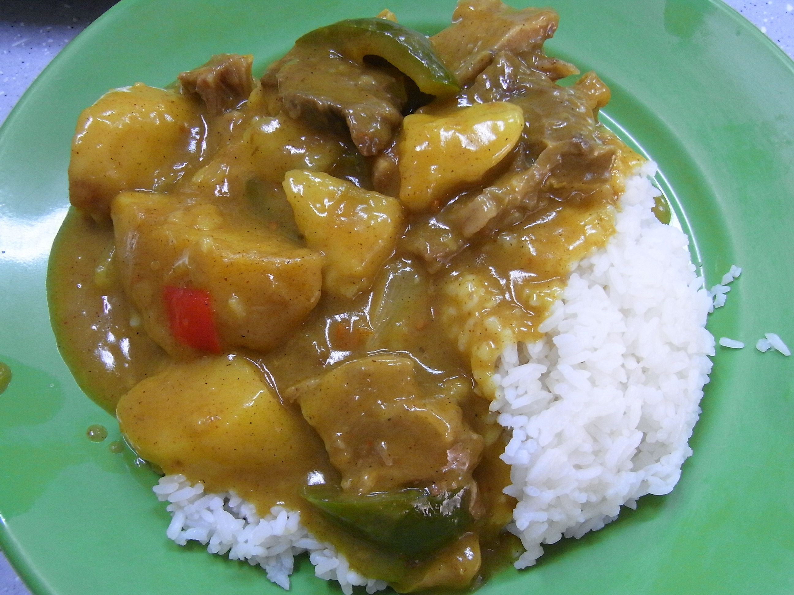 Curry Potato beef Rice, Hillier Street, Sheung Wan, Hong Kong